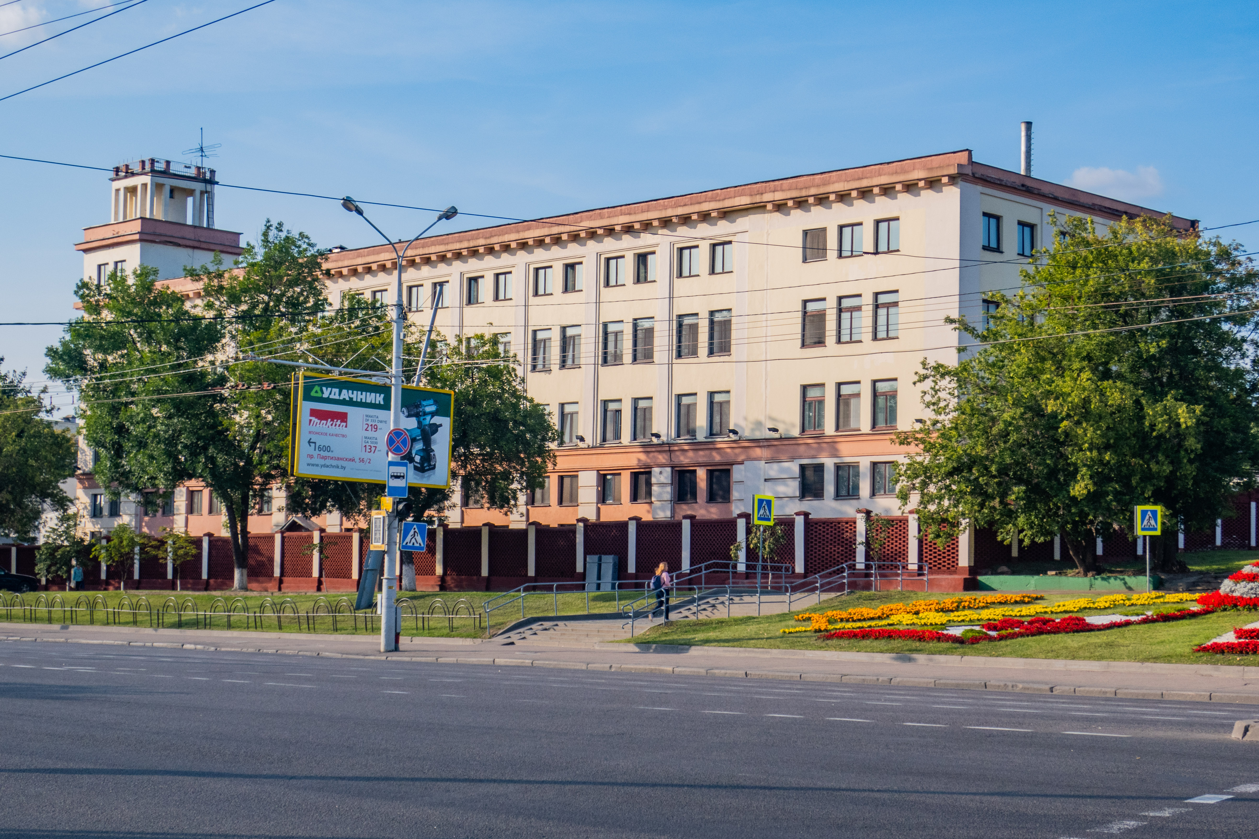 Mechanized bakery No 3. 97 Partyzanski avenue, Minsk, Belarus